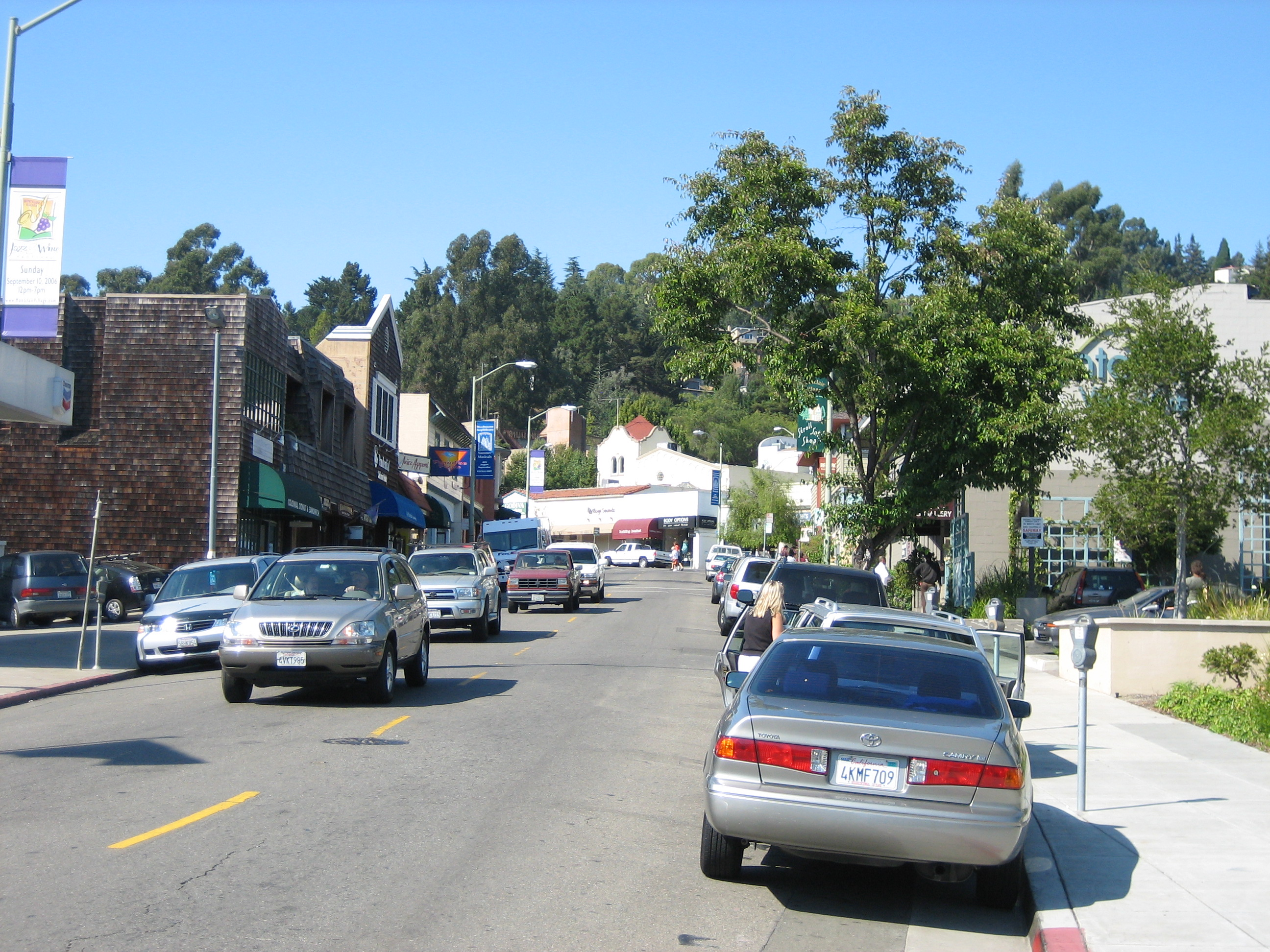 Montclair Village — neighborhood in North Oakland, California. Category:Images of Oakland